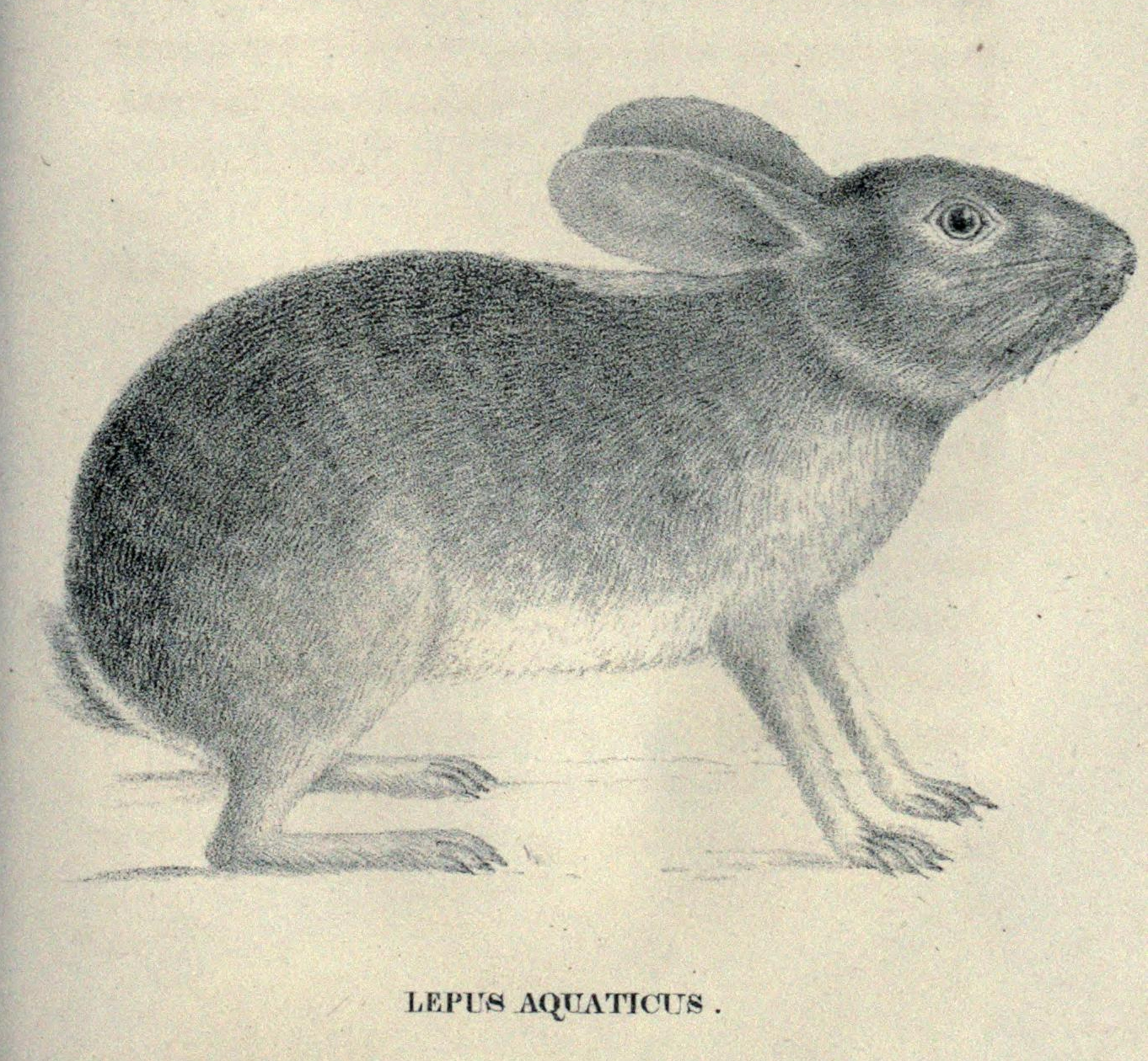 Drawing of Lepus aquaticus (now Sylvilagus aquaticus) in it'S original scientific description